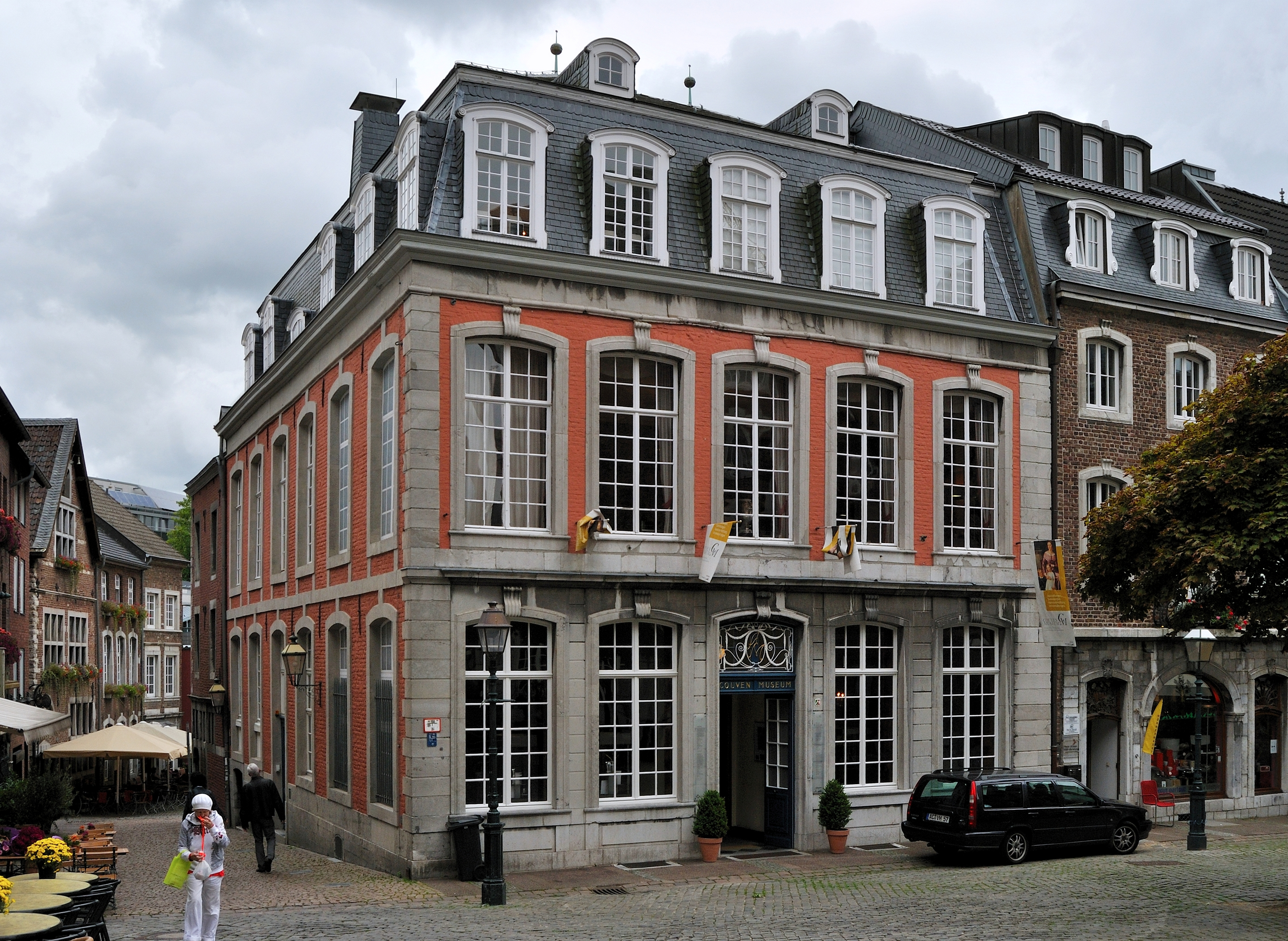 Aachen (North Rhine-Westphalia, Germany) – Couven Museum